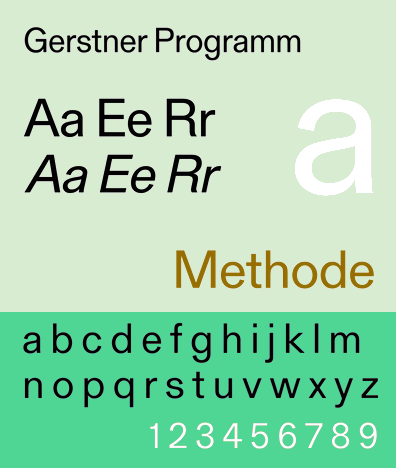 Specimen of the typeface Gerstner Programm, released by Lineto. Digital restoration by Stephan Müller of Gerstner Programm, designed by Karl Gerstner between 1964-67.